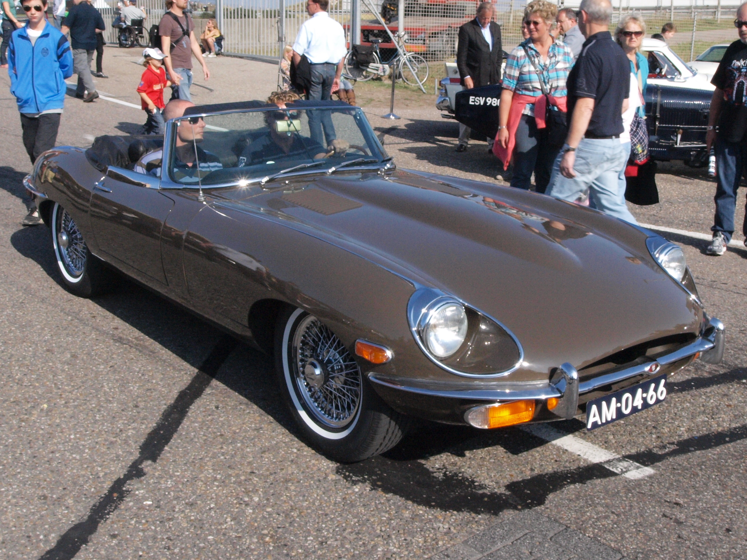 Photographed at the Nationaal Oldtimer Festival Zandvoort 2009, The Netherlands. OLYMPUS DIGITAL CAMERA